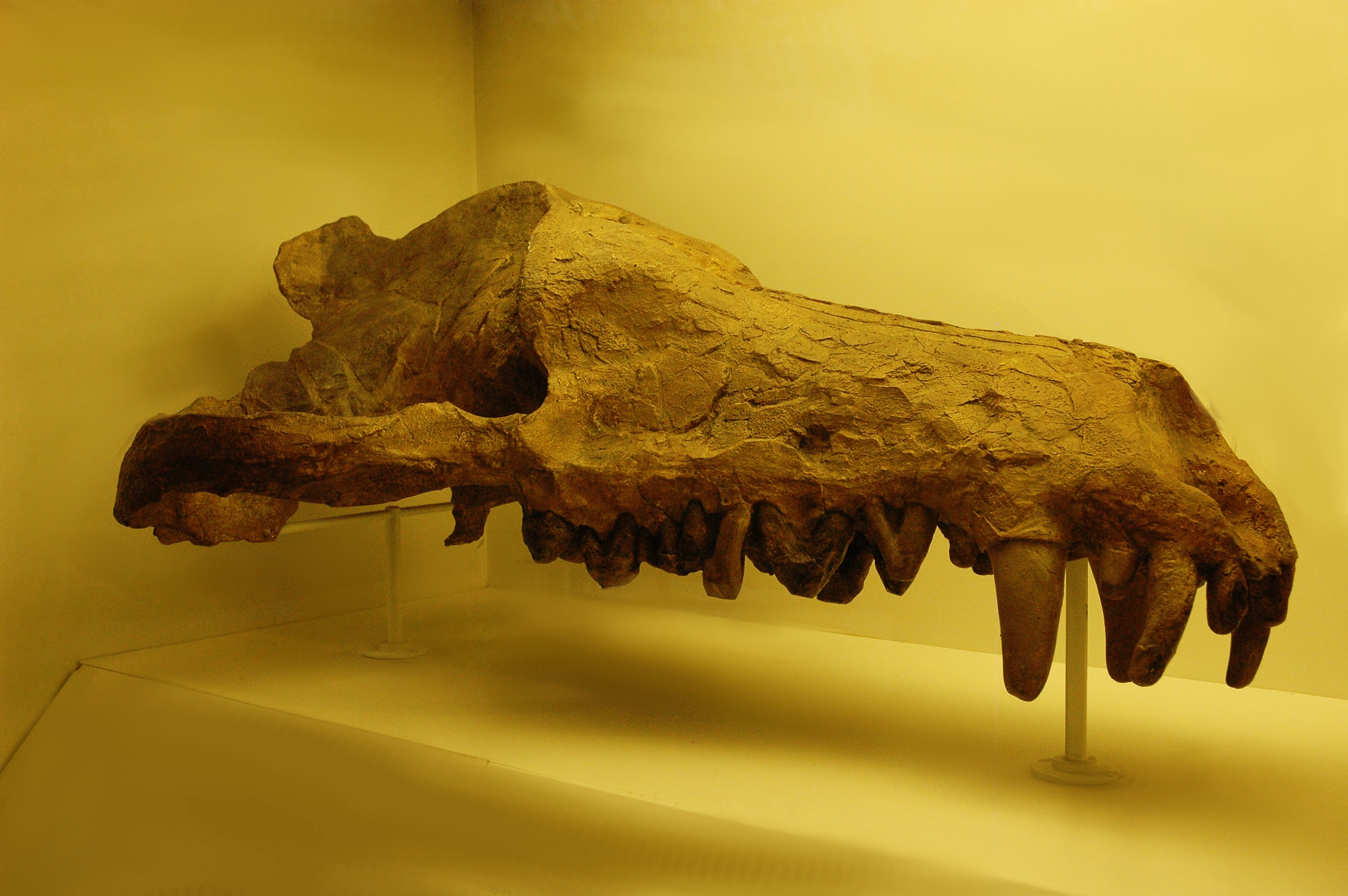 Andrewsarchus mongoliensis skull cast, British Museum (Natural History)